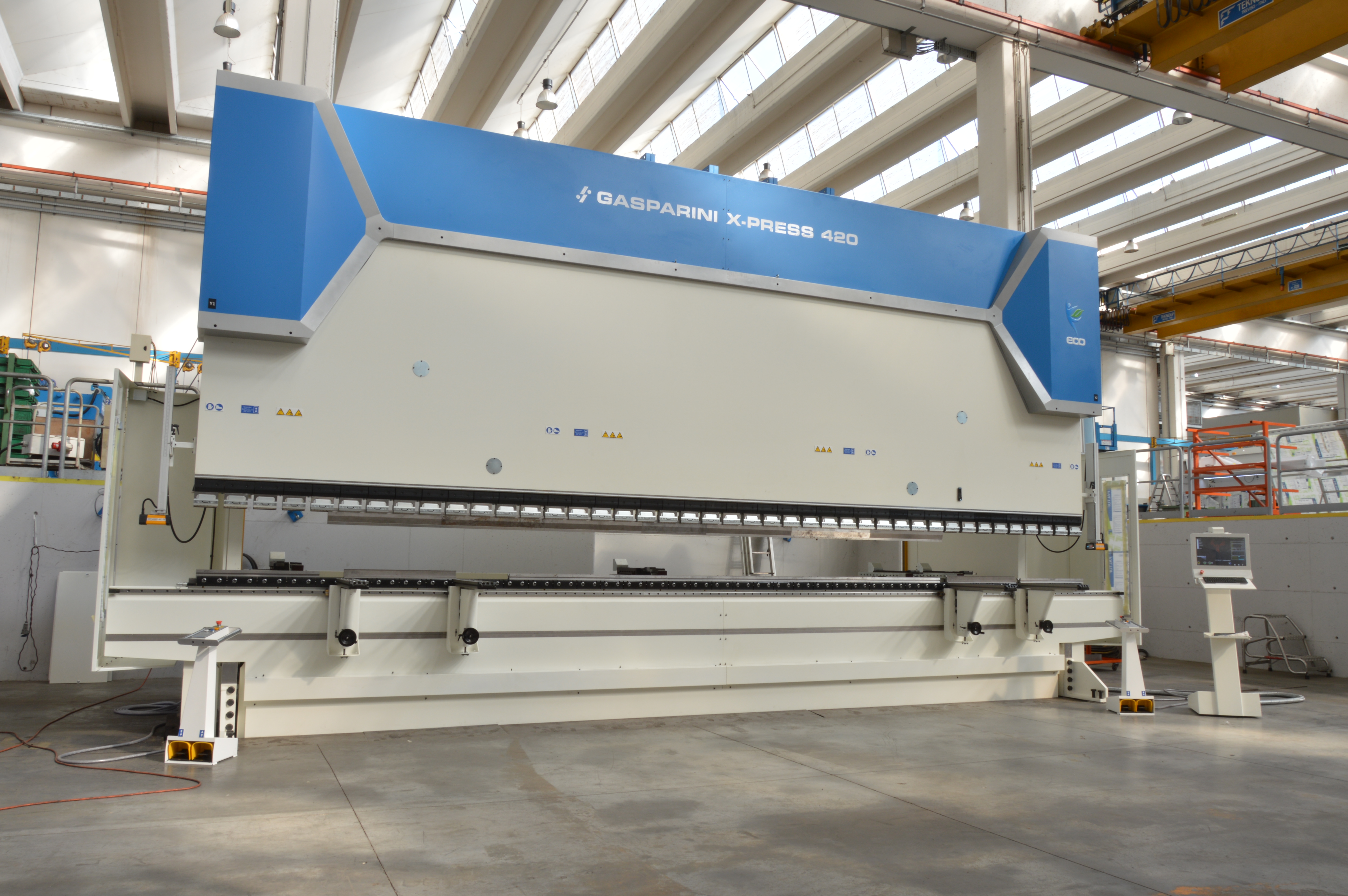 420-ton, 8-meter hydraulic press brake